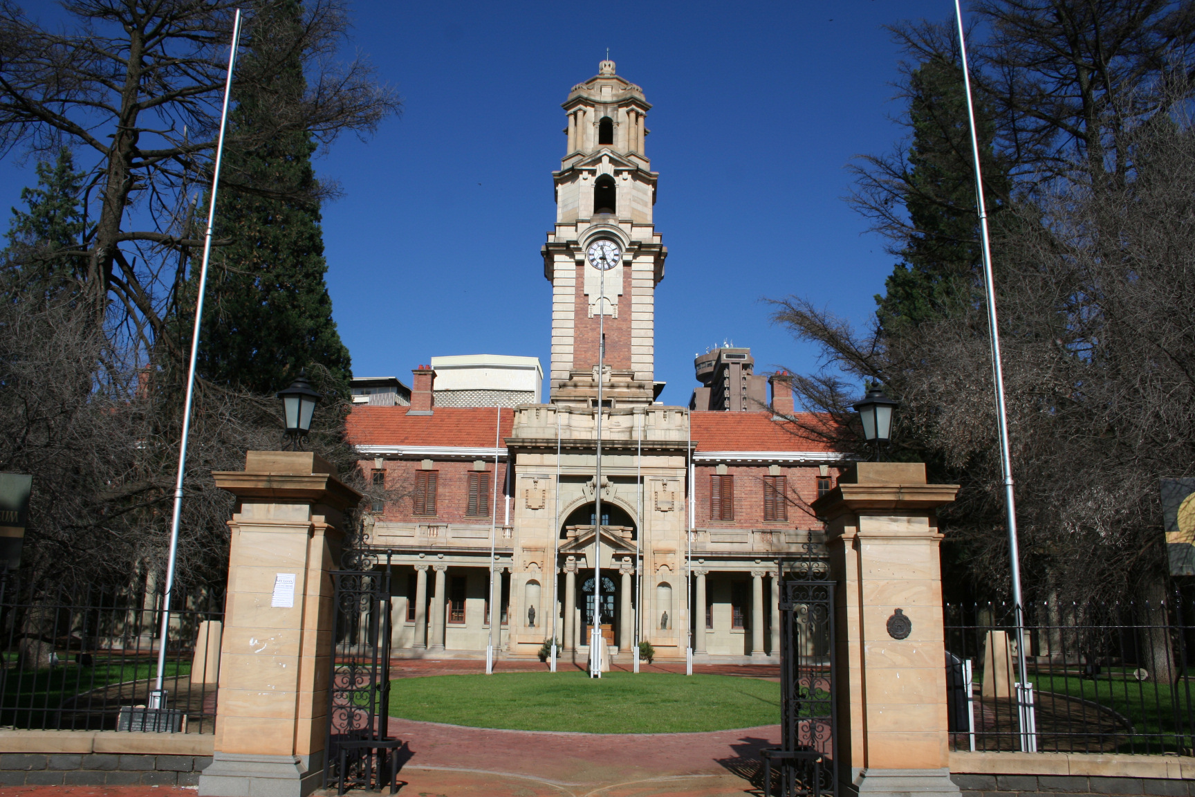 Entrance and main building of NALN, previously known as the Old Government Building This media shows a South African Protected Site with SAHRA file reference 9/2/302/0028.